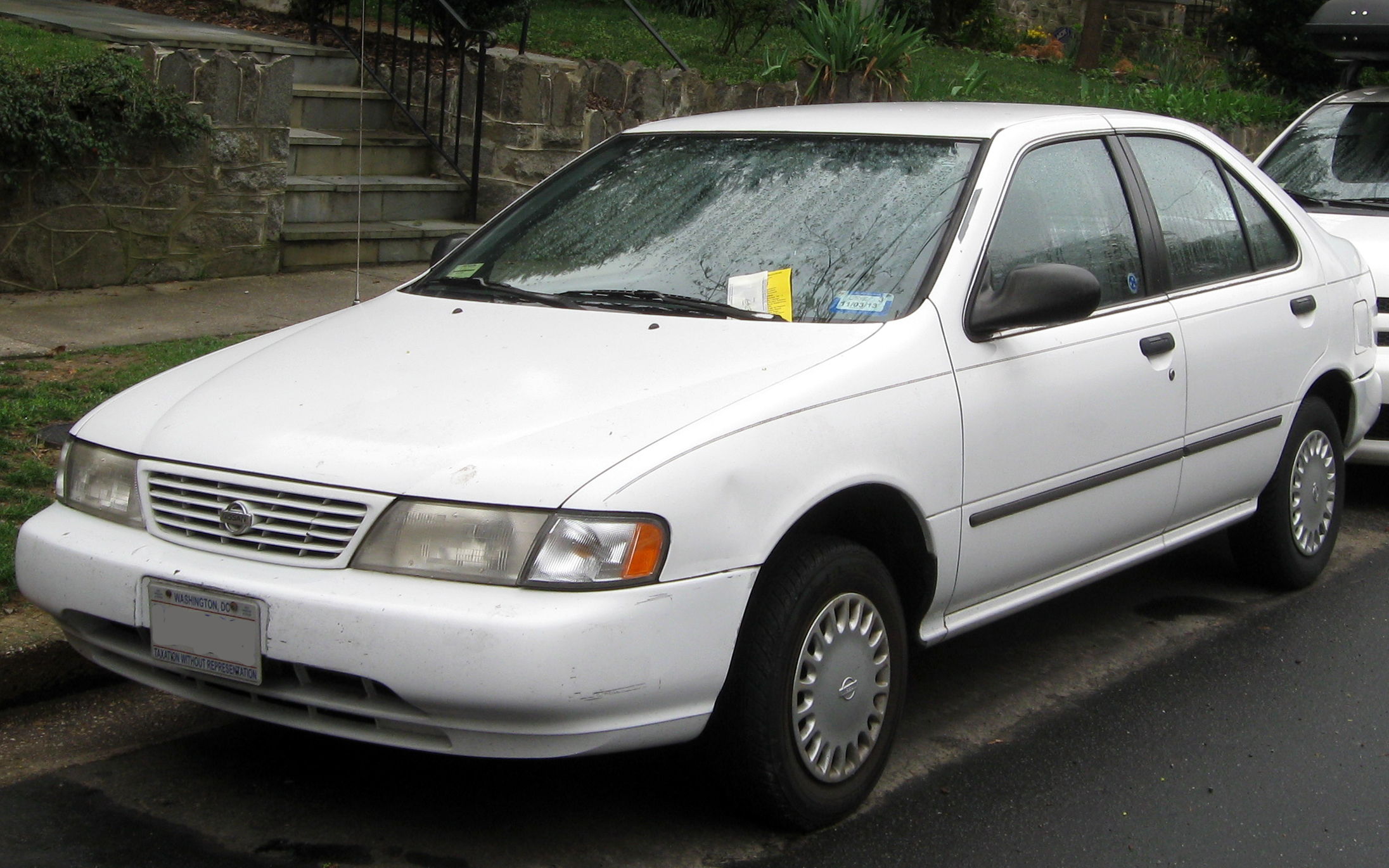 1995-1997 Nissan Sentra photographed in Washington, D.C., USA.